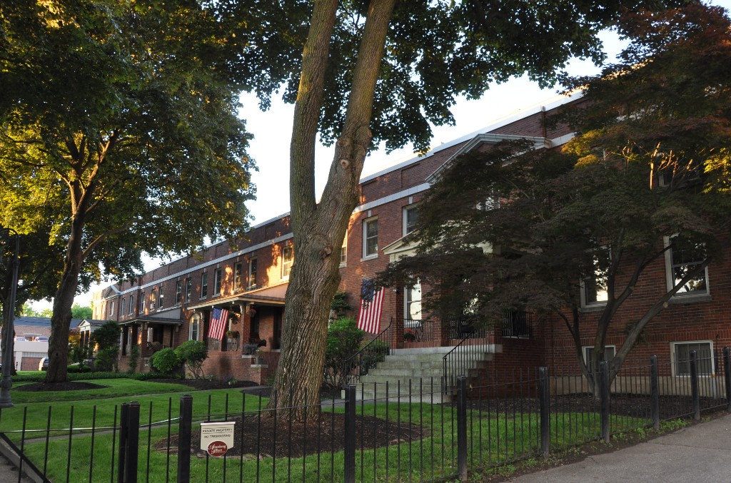 Front side of a row house in the District C historic mill housing district of Manchester, New Hampshire.